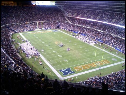 Sunday Night Game, Sept 2008